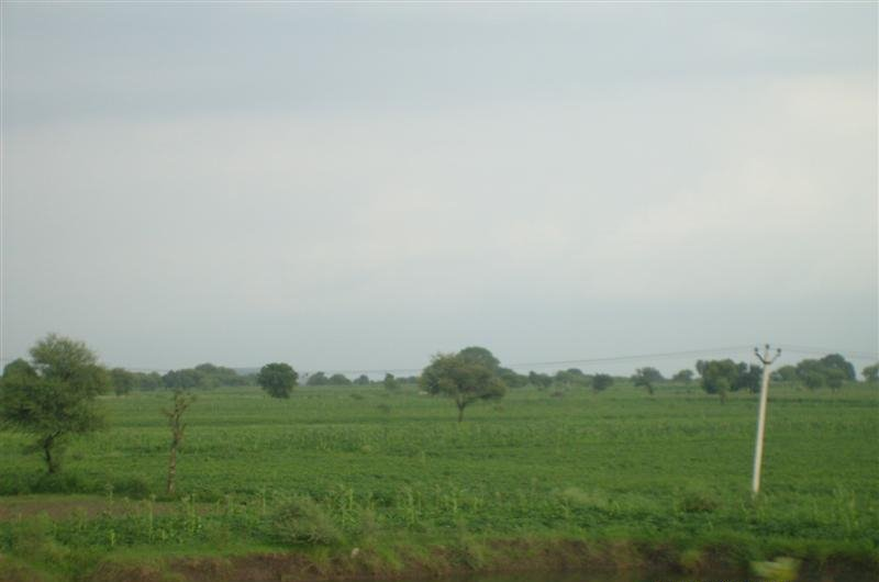 Grassland of Aklera, India on 15 August 2008